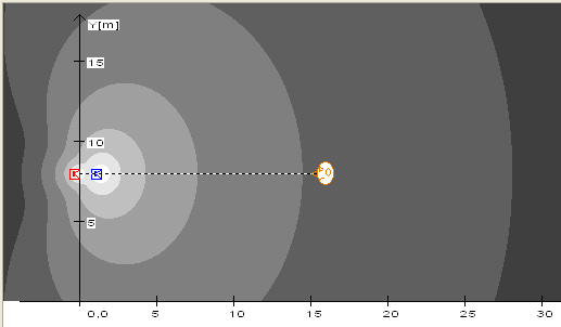 Computer graphic made with Electro-Voice RACE software of two subwoofers arranged in end-to-end with the one nearer the listener delayed a few milliseconds to match the distance between grilles